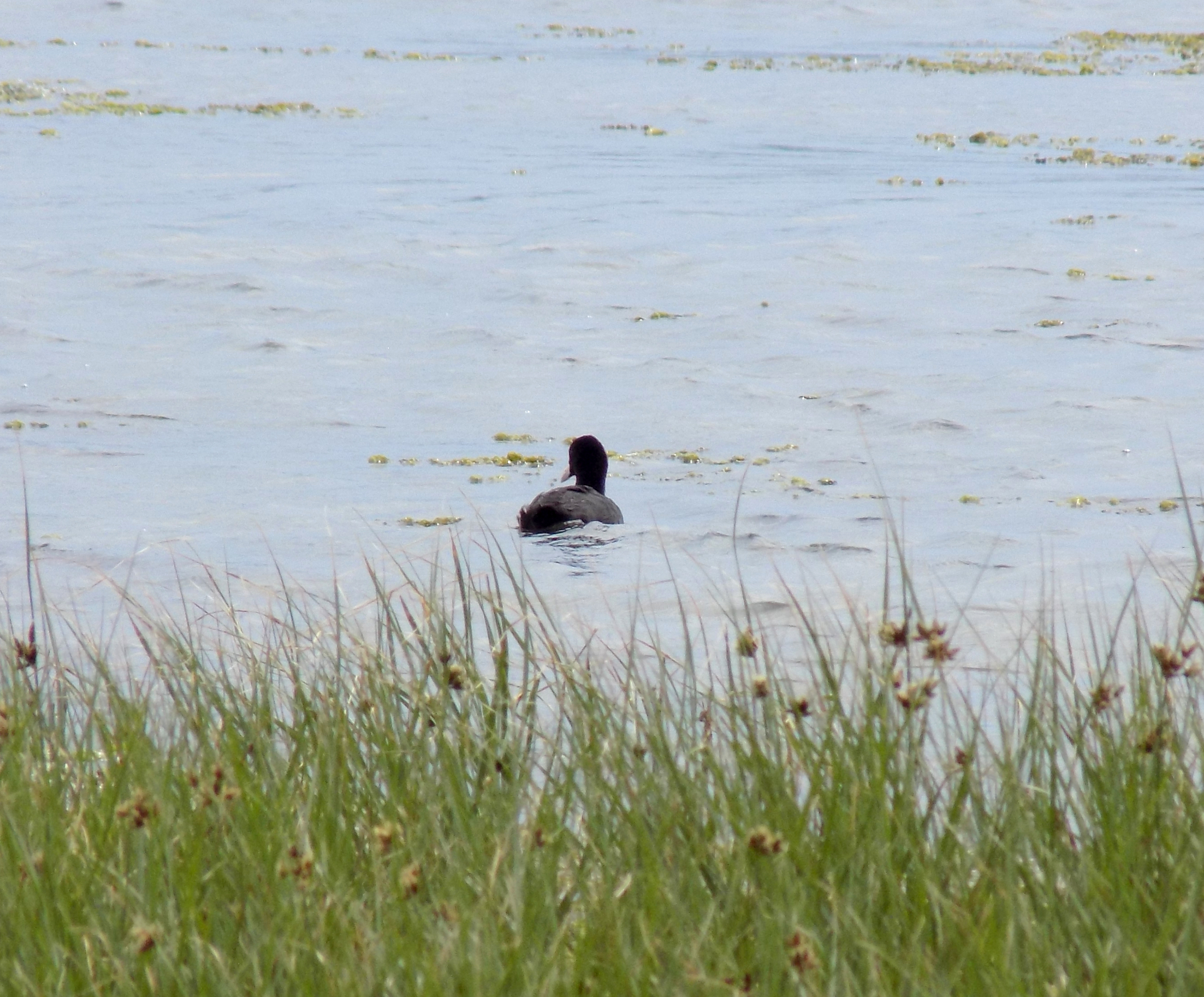 Ulcinj Salinas, important bird area